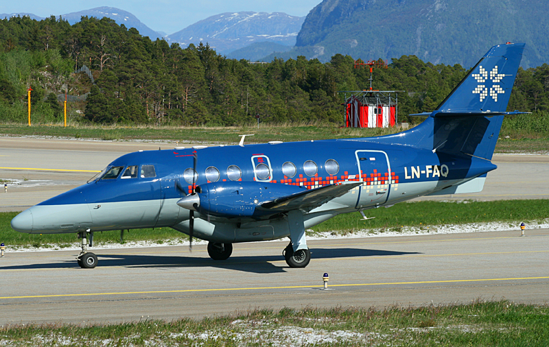 Coast Air